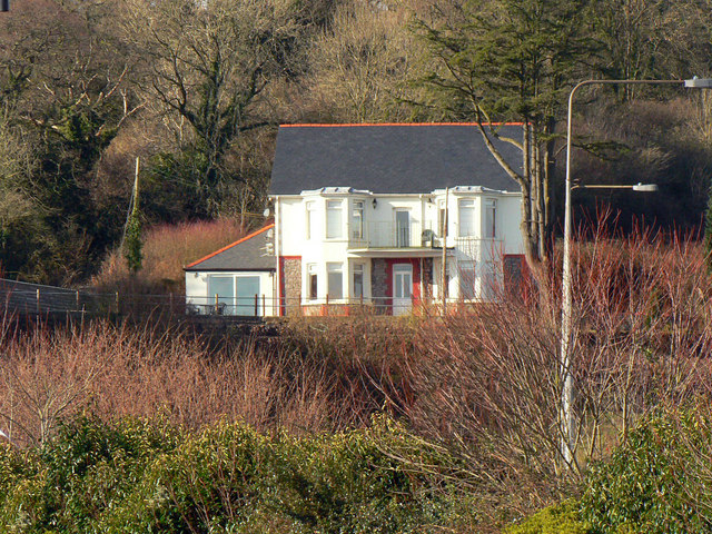 House overlooking Cardiff from Tumbledown on the A48